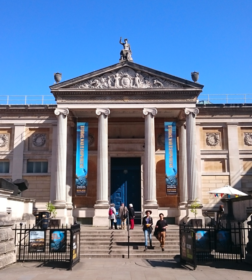 Ashmolean Museum Entrance May 2016